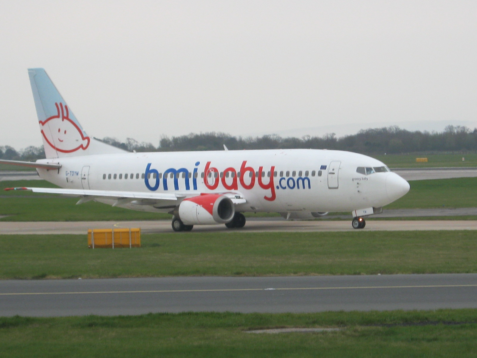 A Bmibaby Boeing 737-300 G-TOYM Taxxing to the Runway at Manchester Airport,, operating as WW3905 to Jersey.